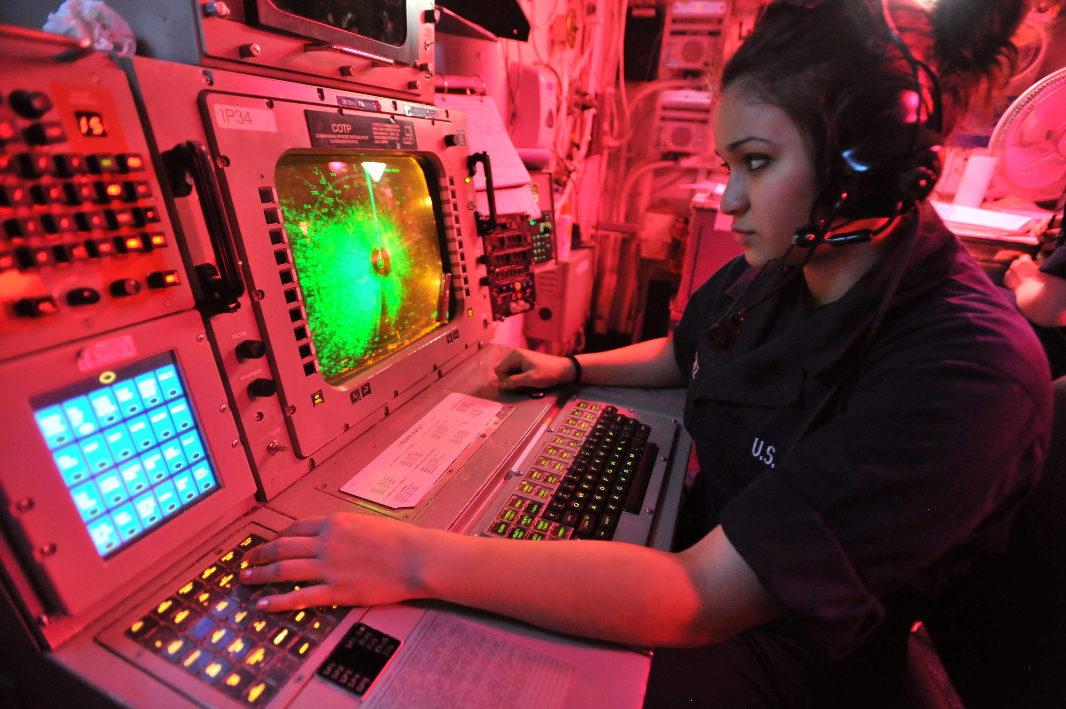 Seaman Nathalie G. Sanchez operates an advanced combat direction system console in the commanding officer's tactical plot room aboard the aircraft carrier USS Enterprise (CVN 65) in the Arabian Gulf on April 26, 2011. The Enterprise and Carrier Air Wing 1 are conducting operations supporting Operation New Dawn in the U.S. 5th Fleet area of responsibility.